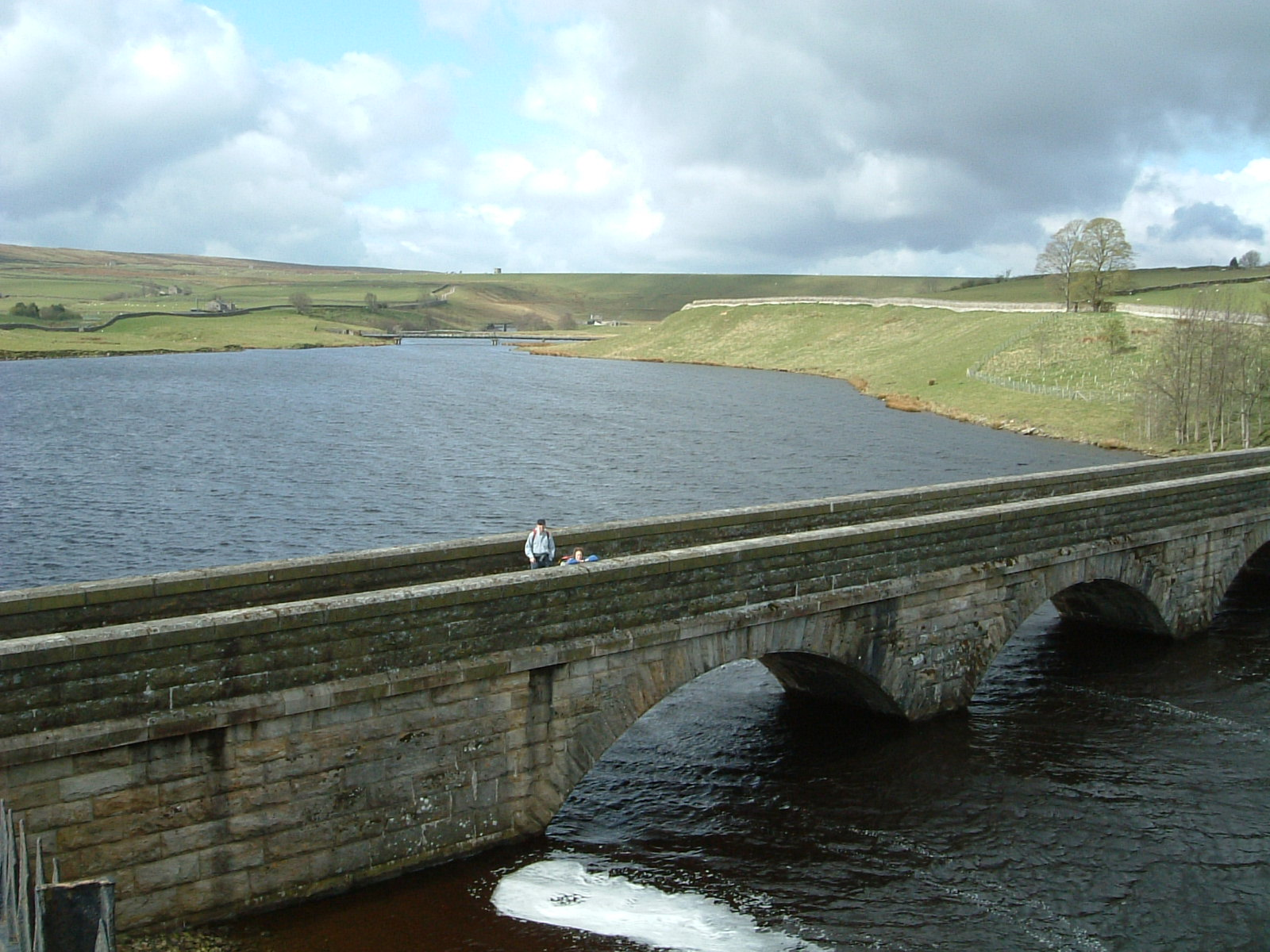 Grassholme Reservoir, Lunedale. Taken by James@hopgrove, April 2005.